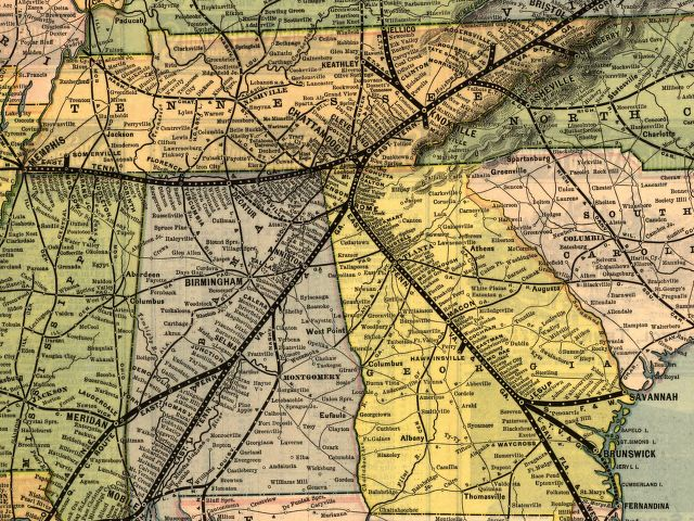 Detail of an 1890 map showing the track system controlled by the East Tennessee, Virginia and Georgia Railway. The ETV&G connected Knoxville with Bristol, where it joined the Norfolk & Western system. At Chattanooga, the line split, with one line continuing westward to Memphis, and another continuing southward into Georgia. This latter line split again at Rome, with one branch continuing southeastward to Brunswick, and another going southwestward into Alabama, all the way to Mobile, Alabama, and Meridian, Mississippi. Originally published as part of "Map of the Shenandoah Valley route via Luray Caverns, Natural Bridge & the Grottos. The Shenandoah Valley R.R. Norfolk & Western R.R. and East Tennessee, Virginia & Georgia System and their connections."